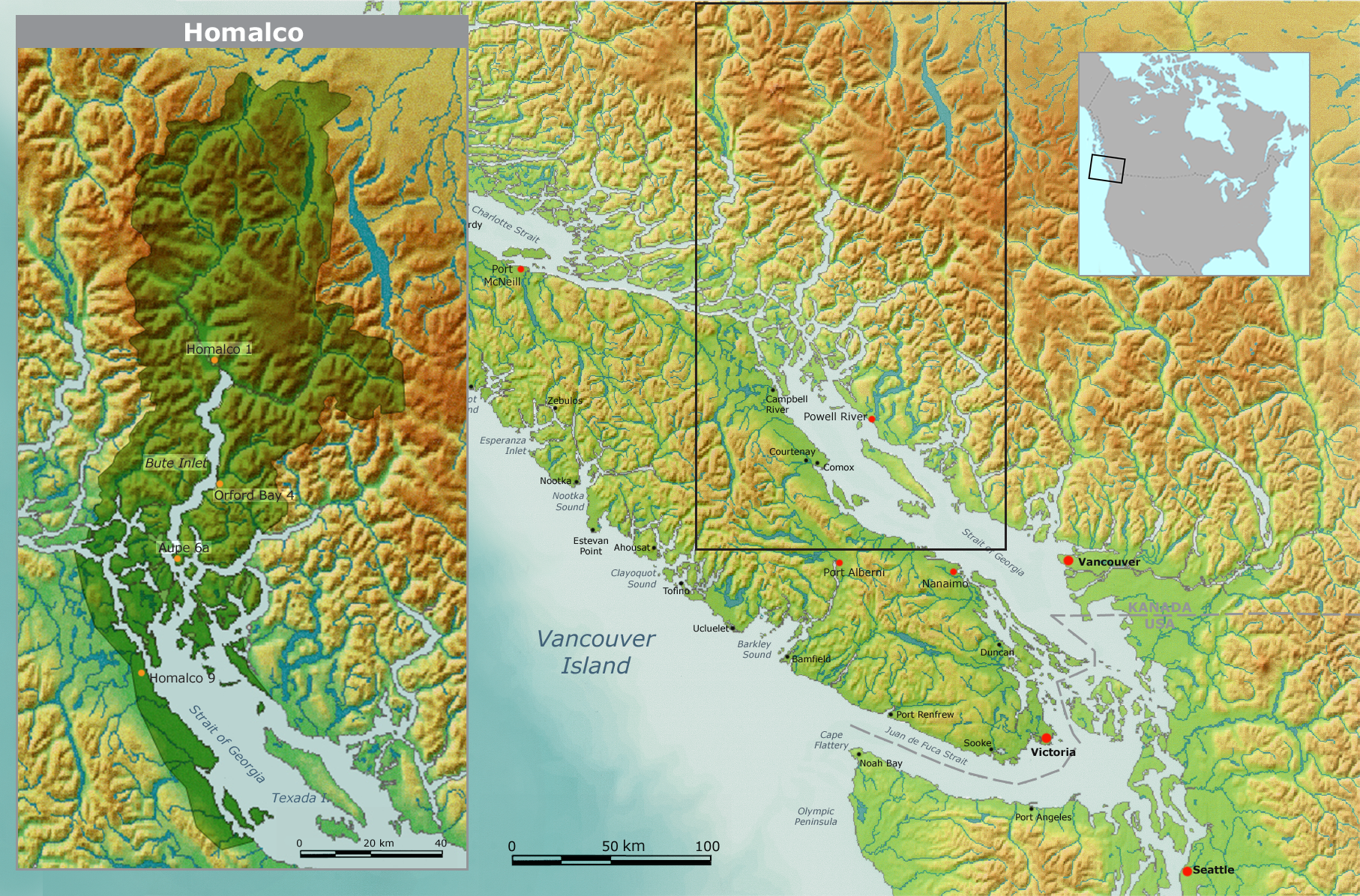 Map of traditional Homalco tribal territory.